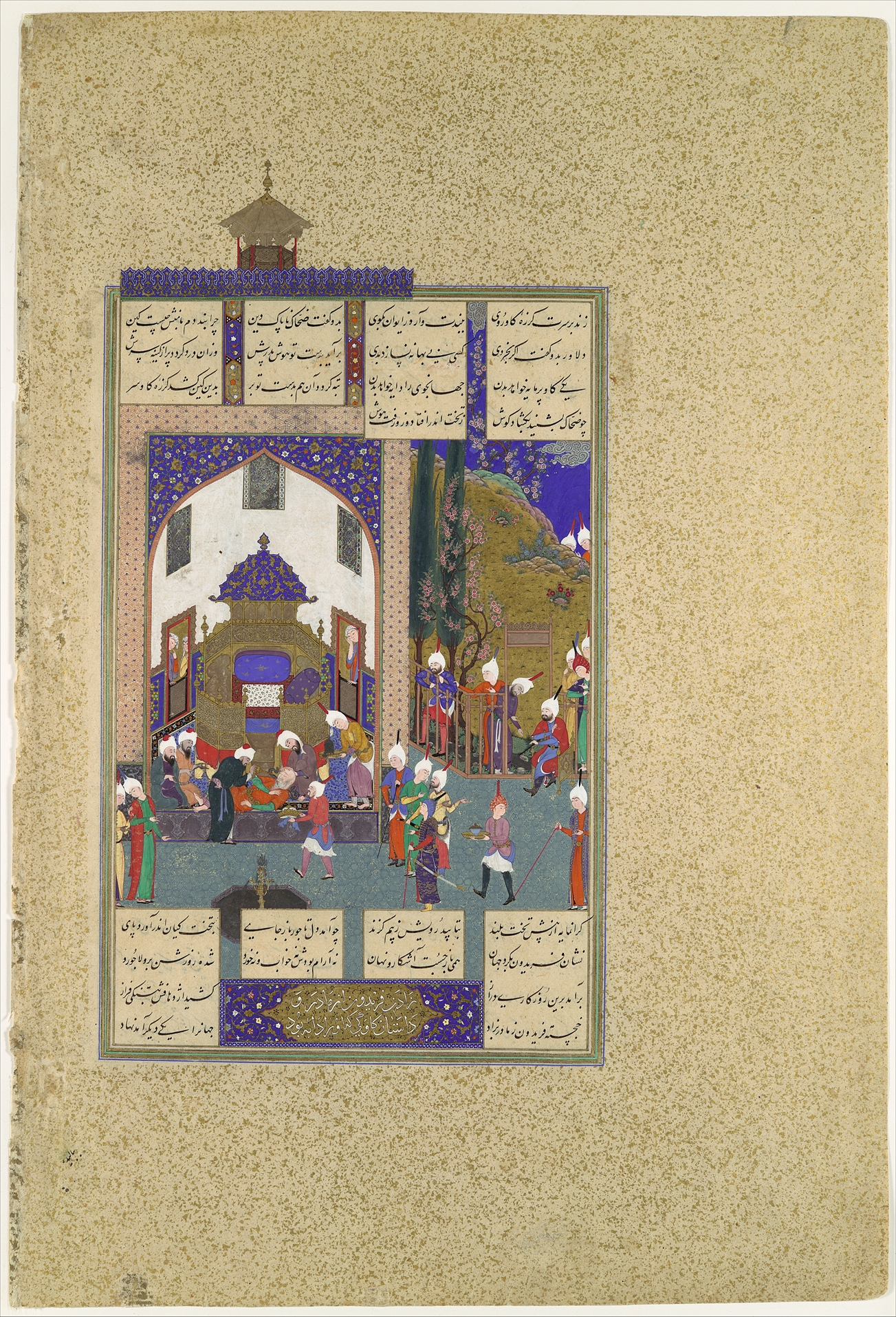 Folio from an illustrated manuscript; Codices